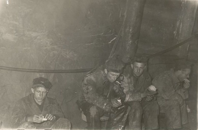 Political prisoners on a break inside a mine in Khenikandzha (Хениканджа), part of the Berlag in the Soviet Gulag system. Second fro left is Lithuanian Justinas Lebedžinskas (arrested in 1946 and sentenced to 10 years of hard labor)